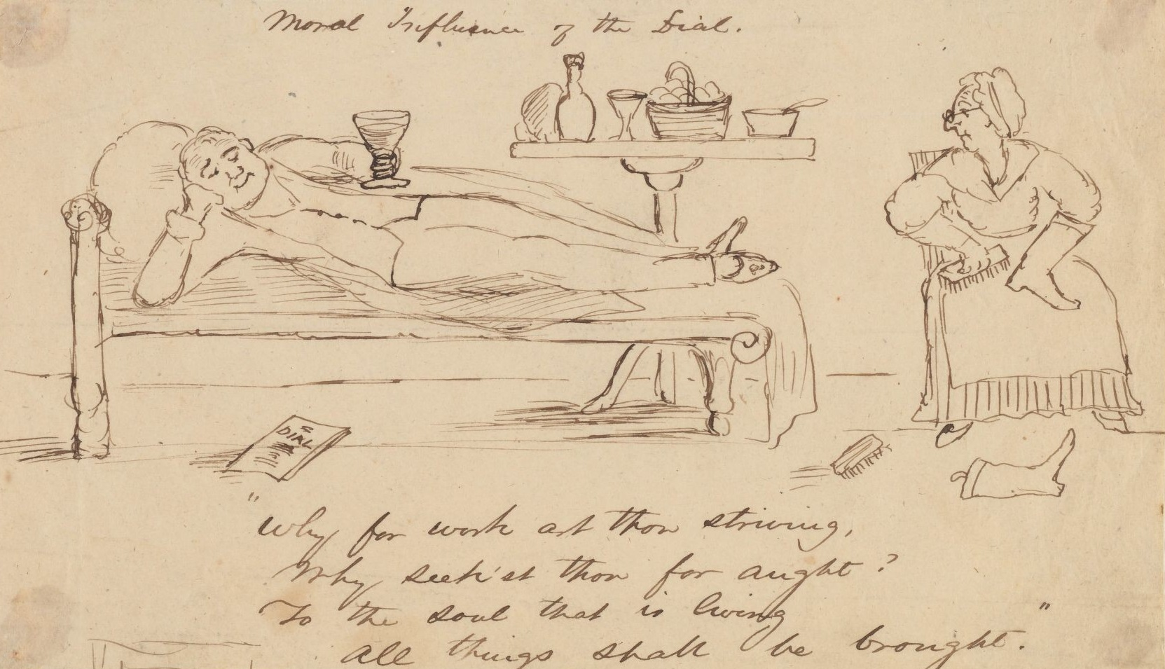 "Moral influence of The Dial": Illustration by Christopher Pearse Cranch (1813-1892). Illustrations ca. 1841-1844, collected in 1844 by James Freeman Clarke and erroneously dated 1835. Christopher Pearse Cranch illustrations of the New Philosophy (MS Am 1506), Houghton Library, Harvard University